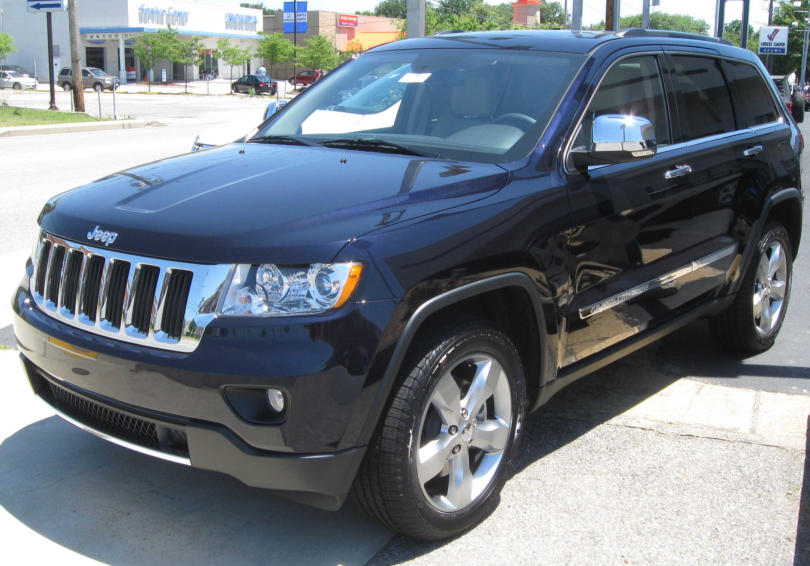 2011 Jeep Grand Cherokee photographed in Annapolis, Maryland, USA.